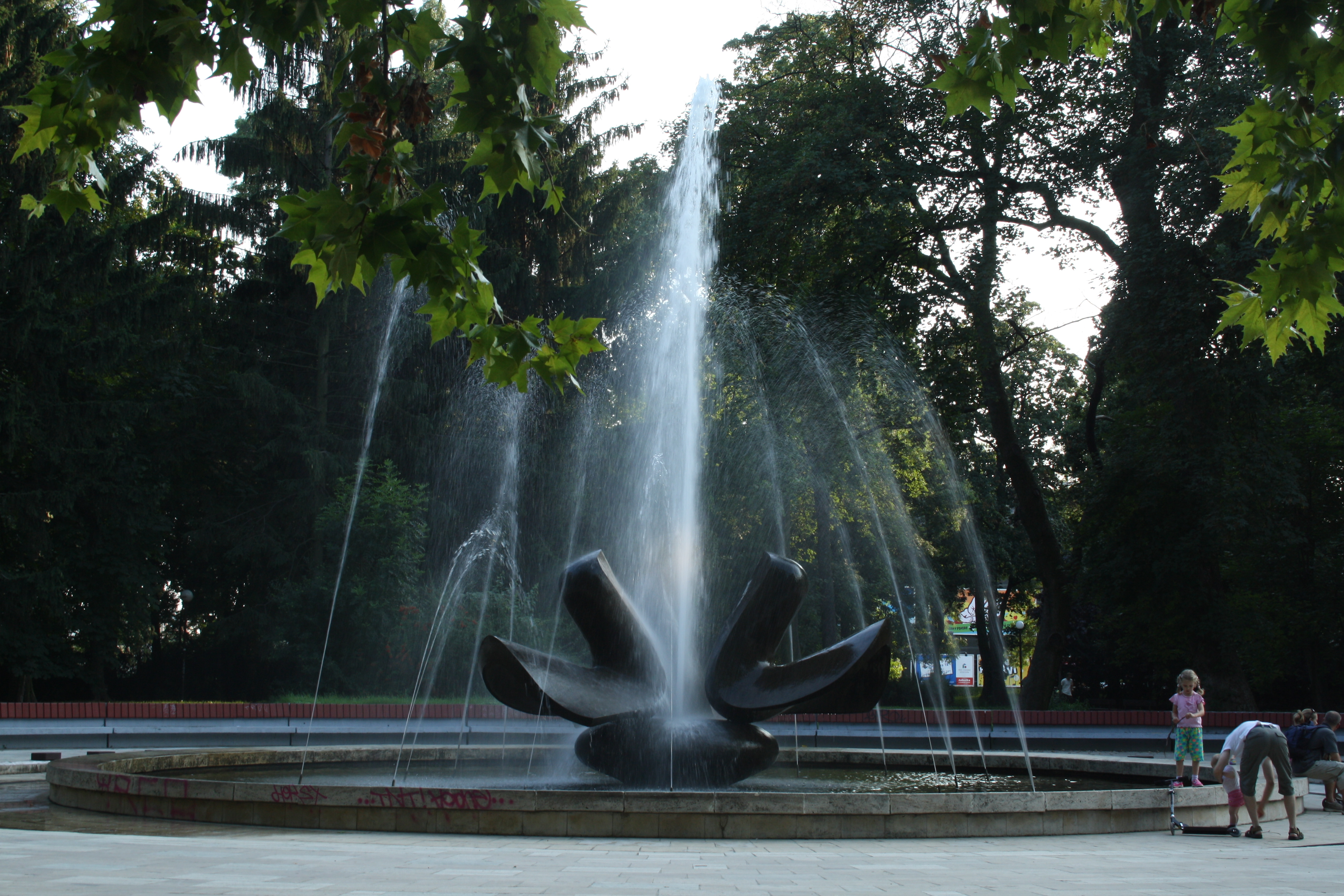 Fountain in Janko Kráľ park in Bratislava.